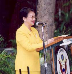 Former president of the Philippines, Corazon Aquino, at the 2003 Ninoy Aquino award ceremony